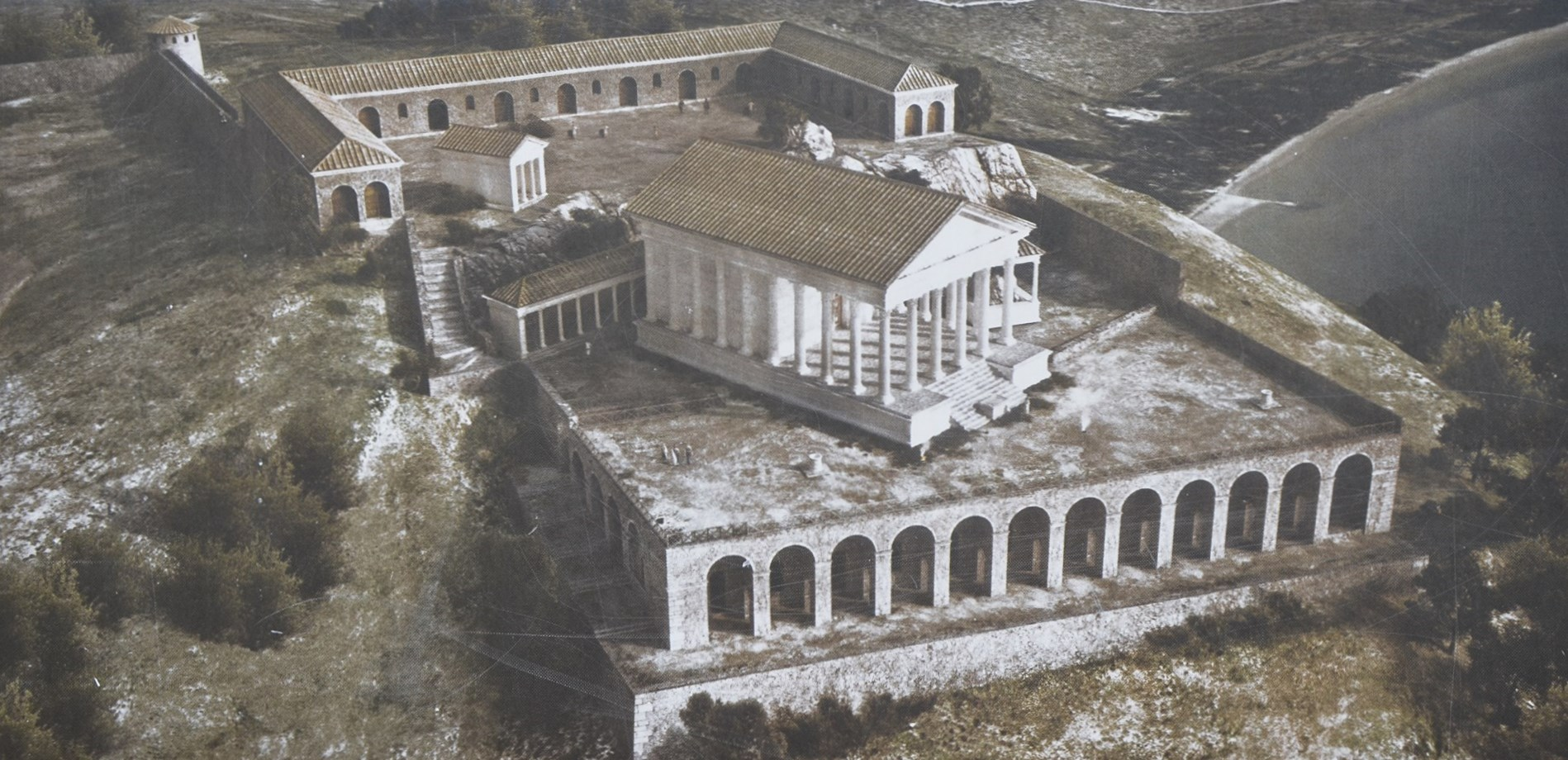 Reconstruction of the so-called Sanctuary of Jupiter Anxur, Terracina, Italy